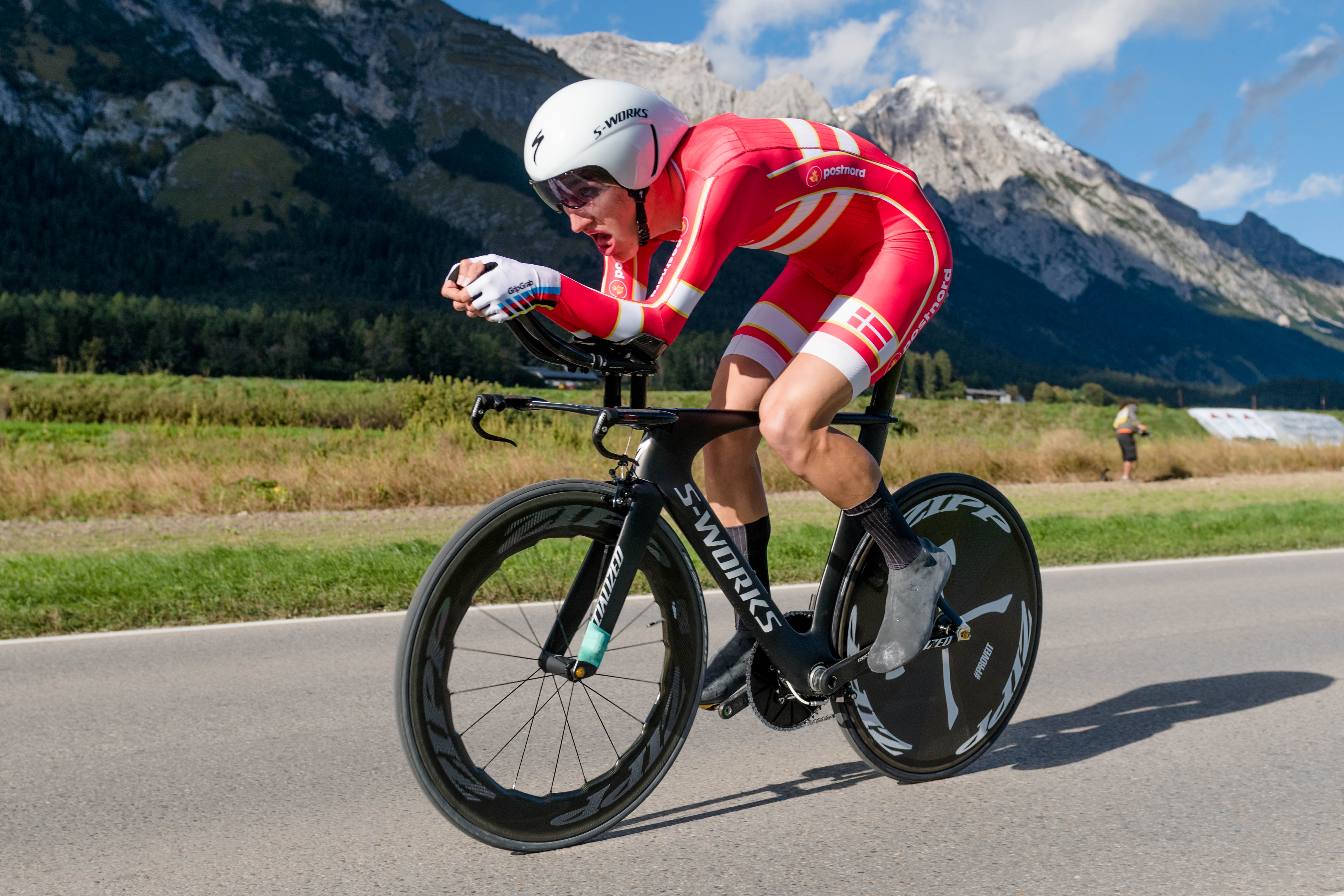 2018 UCI Road World Championships Innsbruck/Tirol Men under 23 Individual Time Trial. Picture shows: Mikkel Bjerg (DEN)